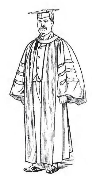 This image shows an academic gown as worn by someone of the degree of doctor of philosophy. The design follows that set forth by the Intercollegiate Code of Academic Costume which is the dominant style used in the United States.